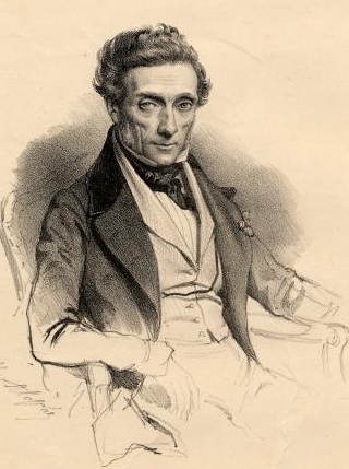 French playwright and songwriter Théophile Marion Dumersan (1780-1849)